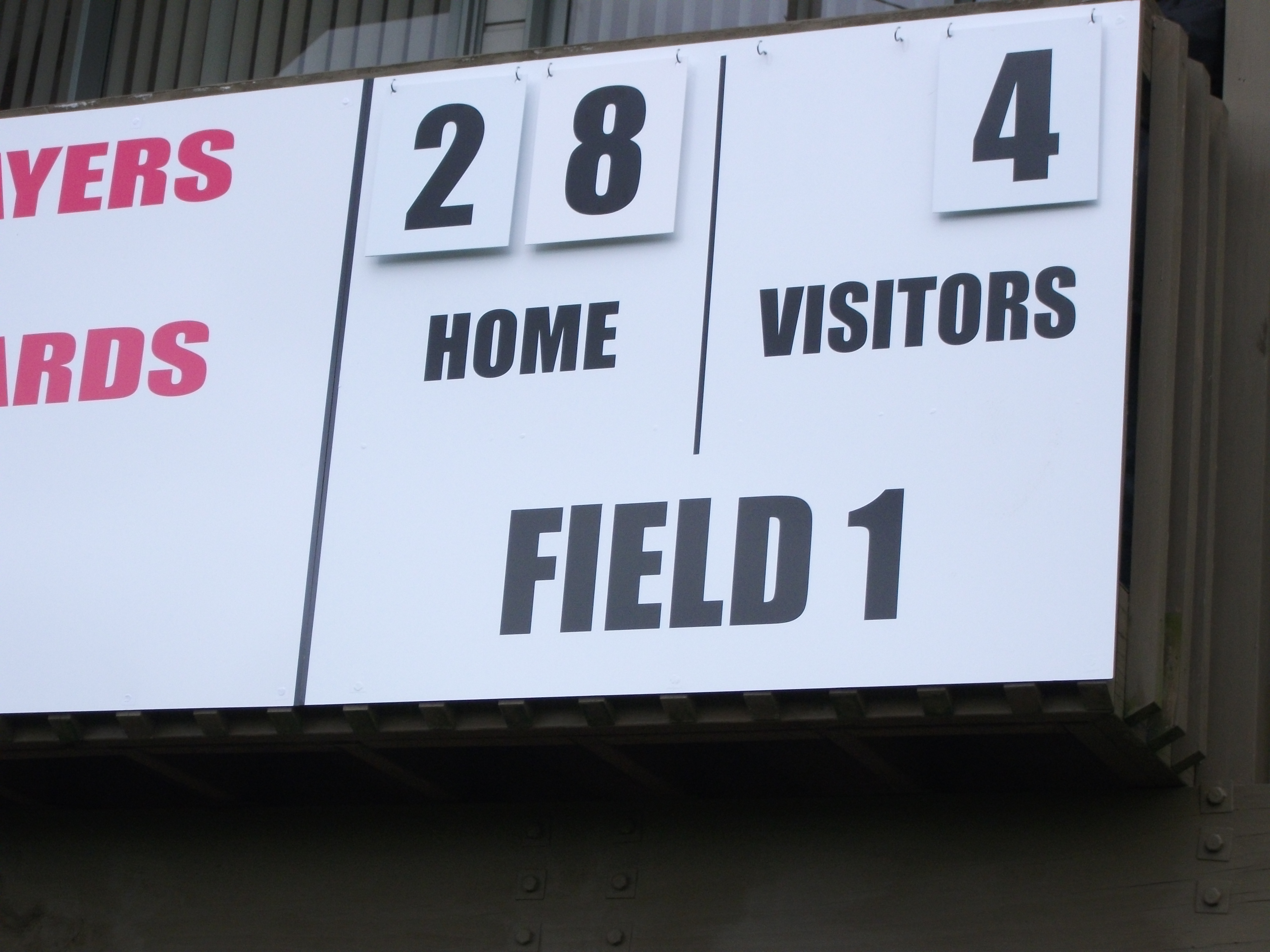 Final score of the Auckland Zone rugby league team vs the South Island rugby league team at Cornwall Park Stadium on 25 September 2010.